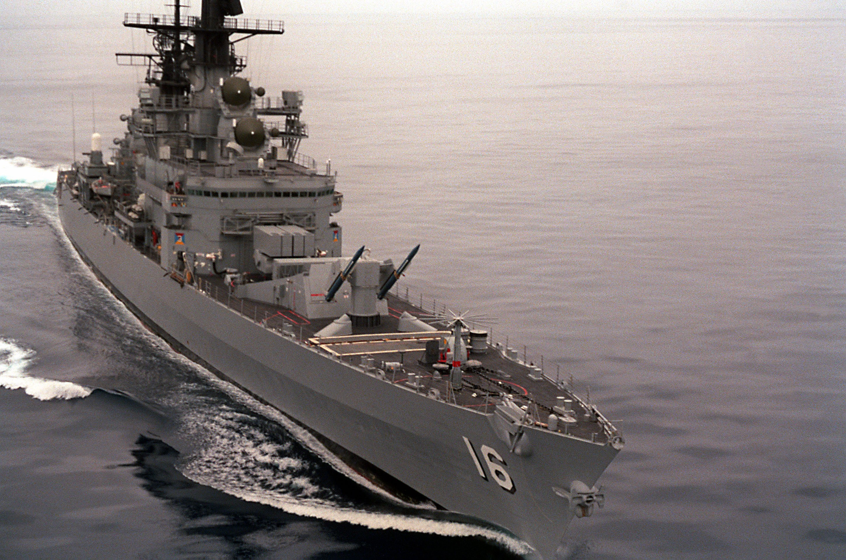 The U.S. Navy guided missile cruiser USS Leahy (CG-16) underway off the coast of Southern California on 11 April 1989.